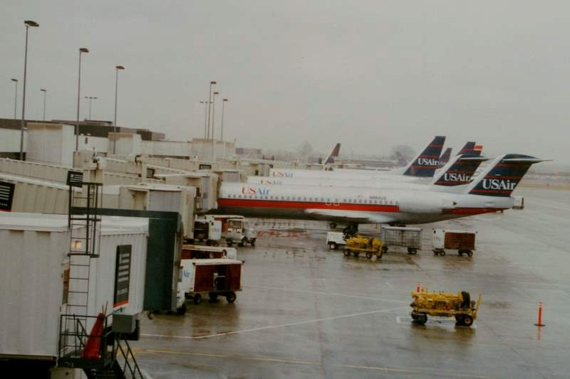 USAir passenger jets at Charlotte/Douglas International Airport